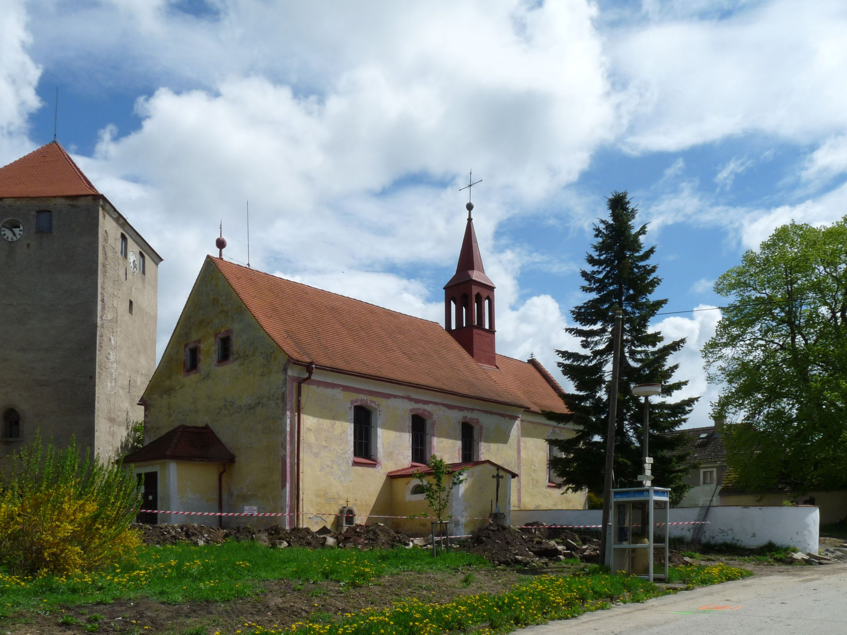 Church of Saint Bartholomew in the village of Slavkov, Český Krumlov District, South Bohemian Region, Czech Republic.